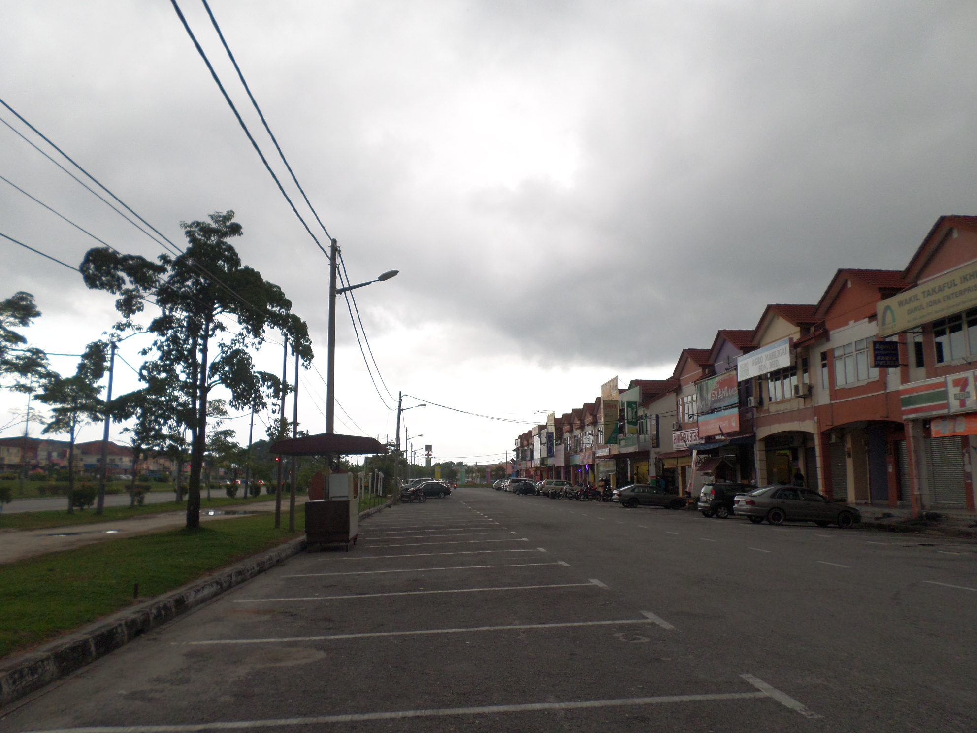 Seri Iskandar, Perak Tengah, Perak, MalaysiaBahasa Melayu: Seri Iskandar, Perak Tengah, Perak, Malaysia